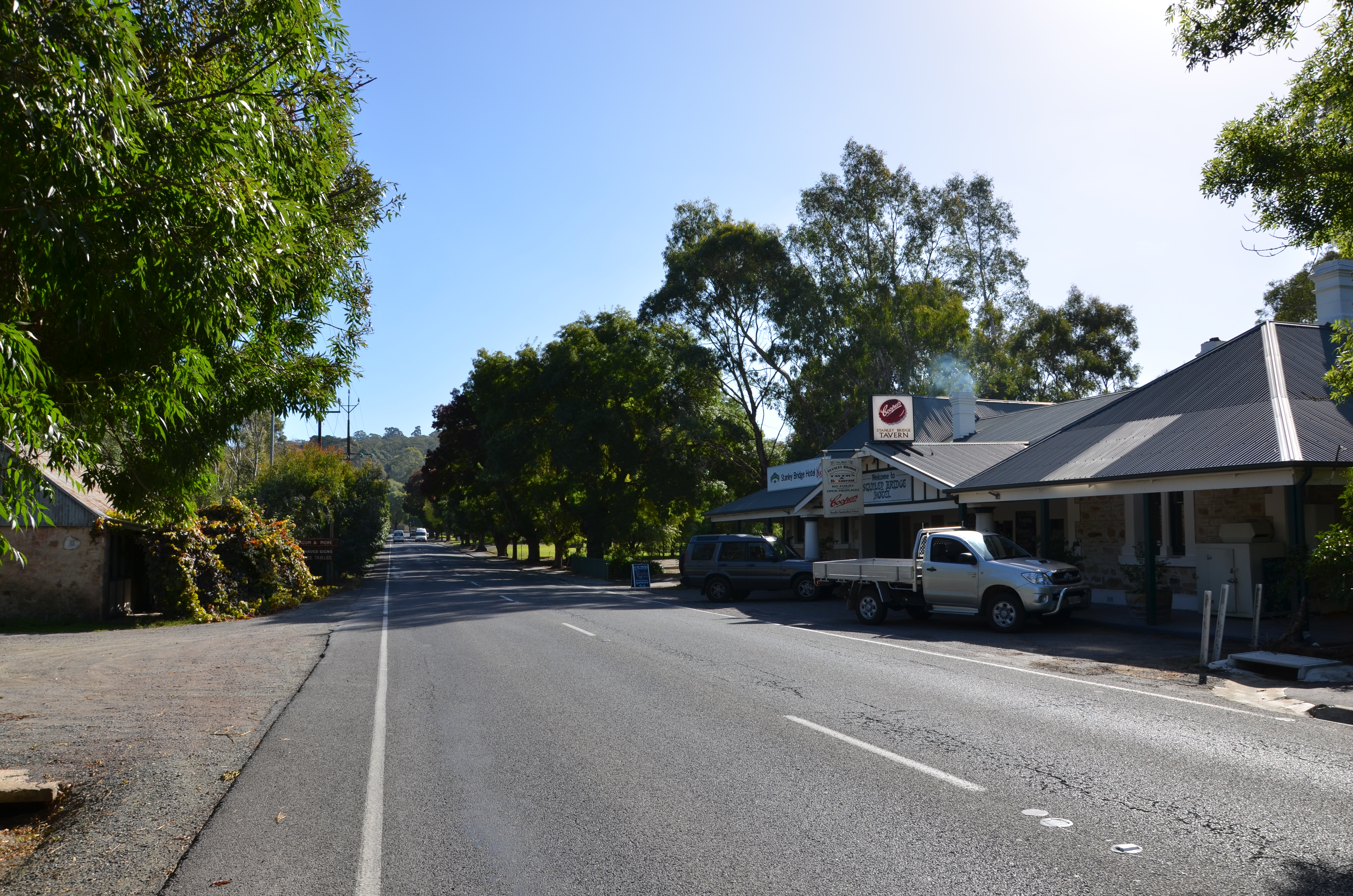 Onkaparinga Valley Road at Verdun, South Australia. The Stanley Bridge Hotel is at right of frame.